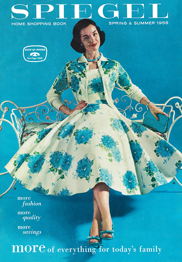 1958 Spiegel Catalog Cover, open source from the Spiegel Website and Facebook group. They give open license to use on-line.